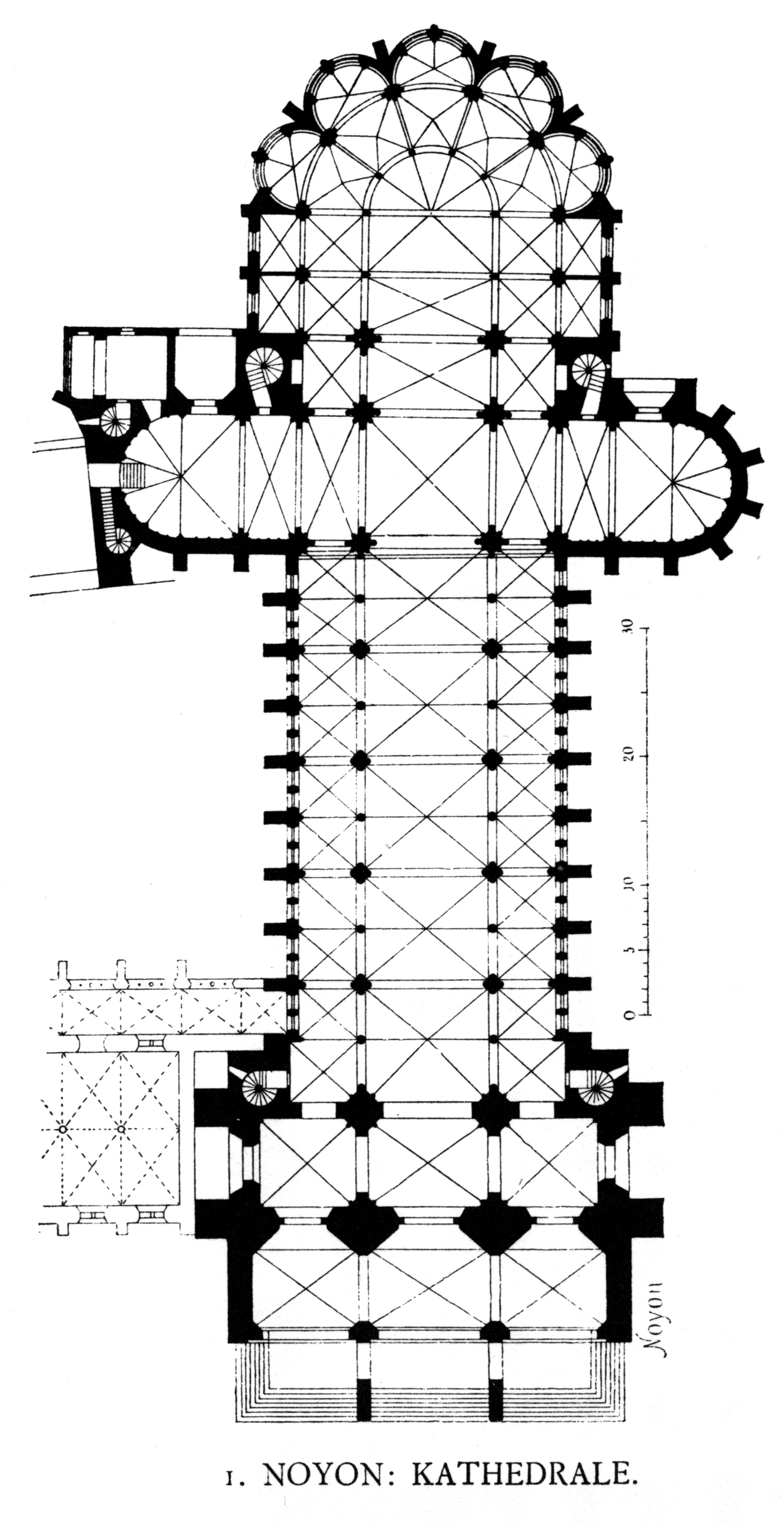 Noyon, Cathedrale.